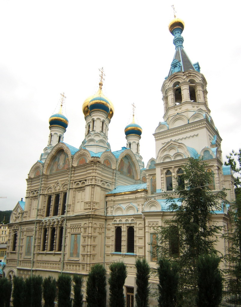 Russian-orthodox church St. Peter and Paul in Karlovy Vary, CZ